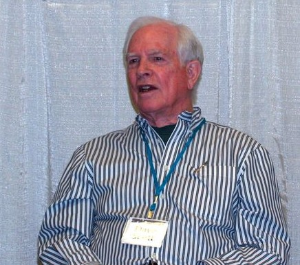 I personally took this photo of NASA astronaut Dave Scott in San Diego.